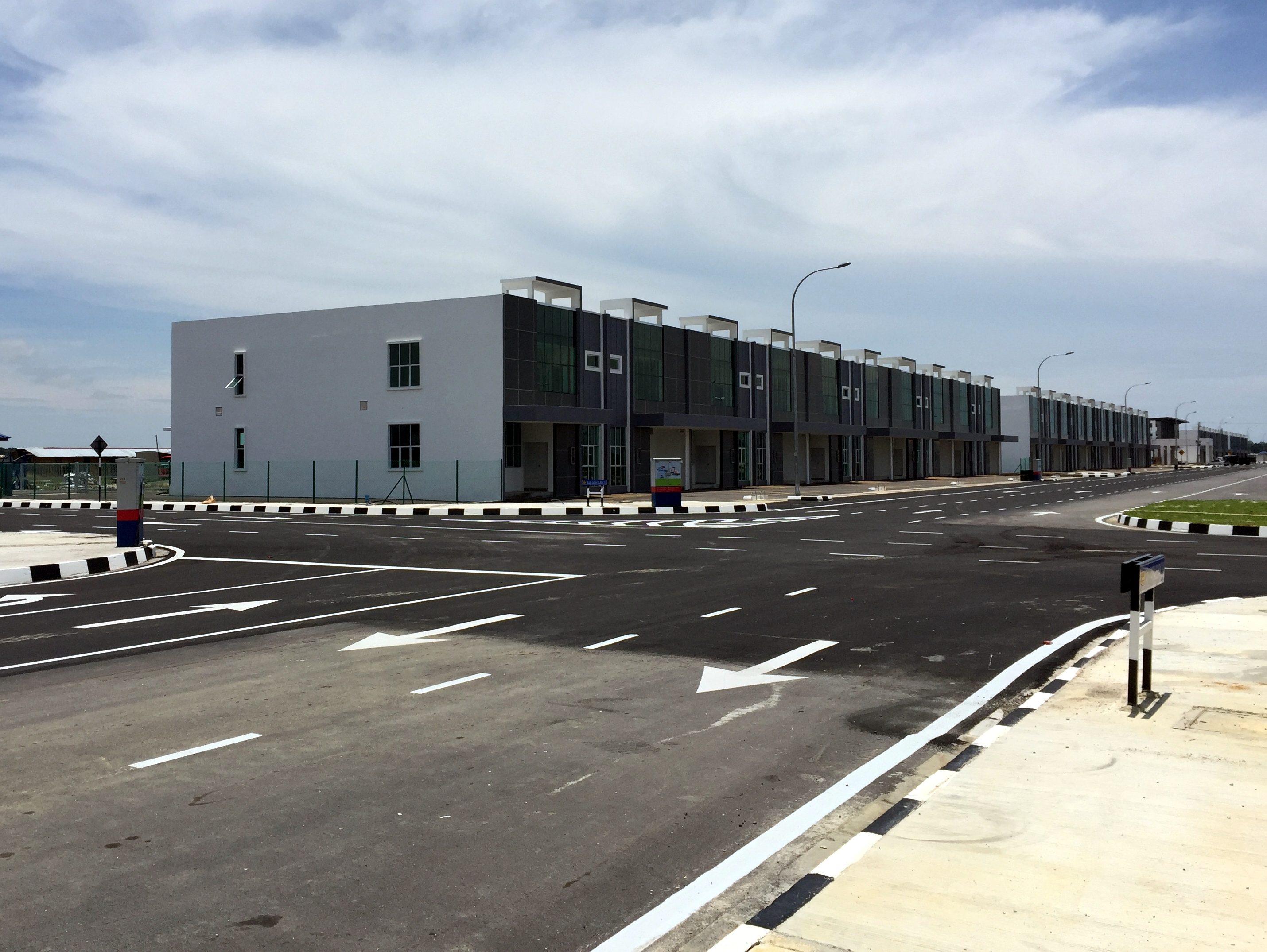 A newly-completed industrial complex at the Batu Kawan Industrial Complex in Seberang Perai, Penang.